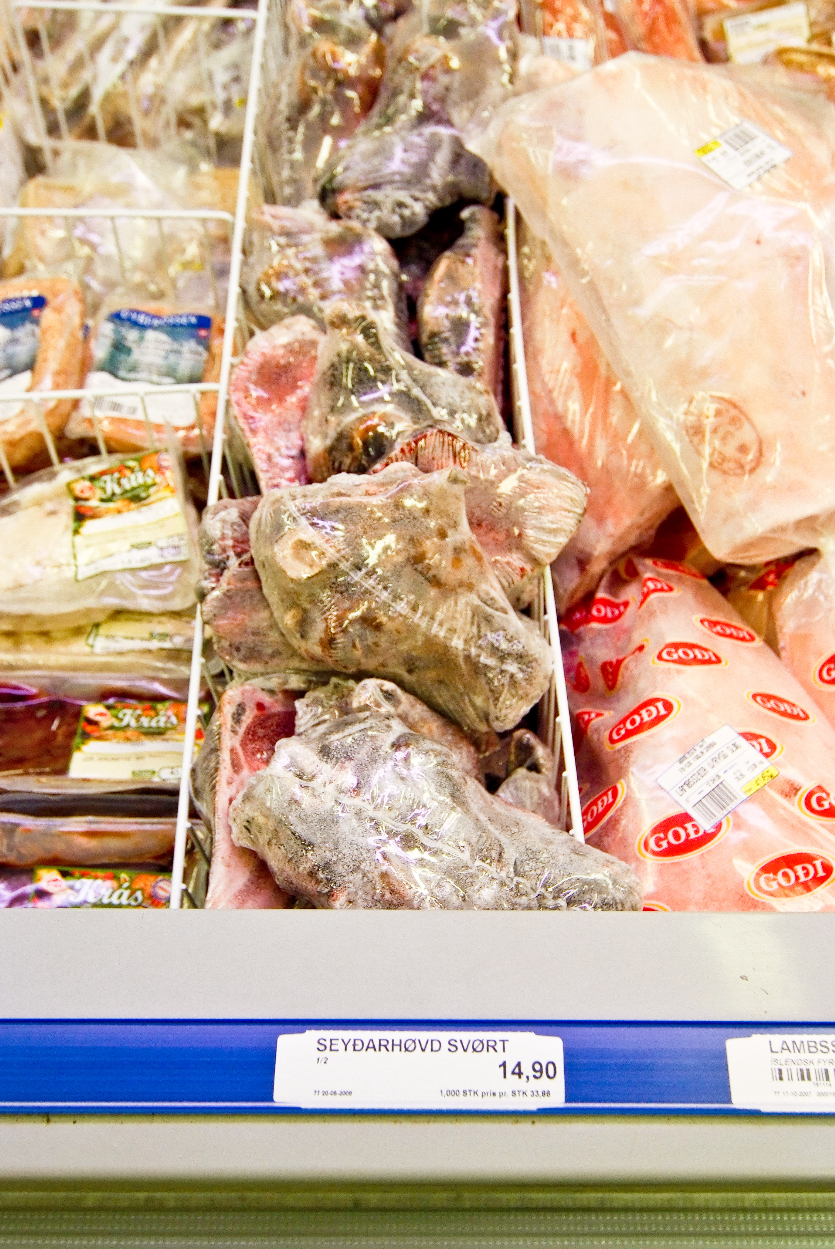 Supermarket in Fuglafjørður, Faroe Islands. Seyðarhøvd are sheep heads, a Faroese delicacy.